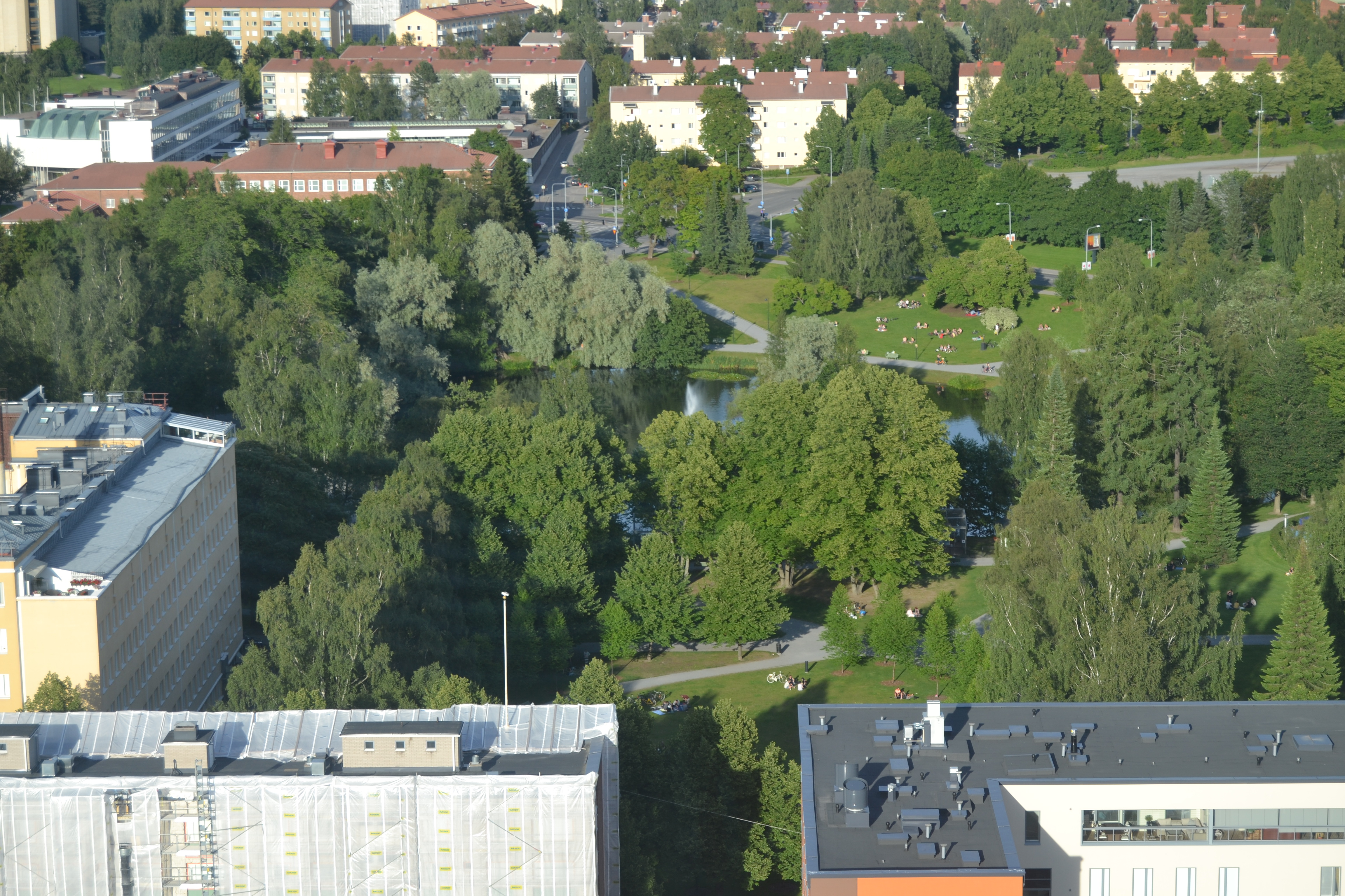 Sorsapuisto park from Moro Sky Bar in Hotel Torni Tampere in Tampere, Finland